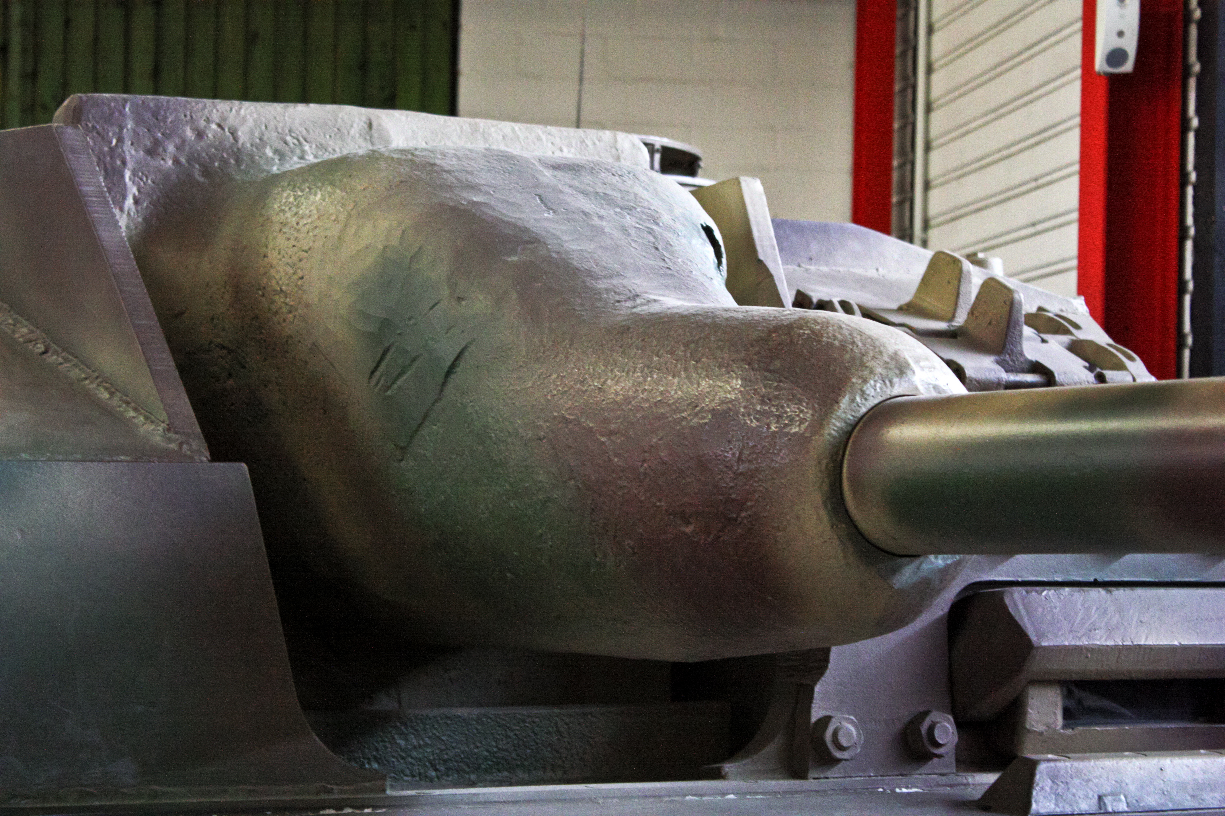 German Tank Museum